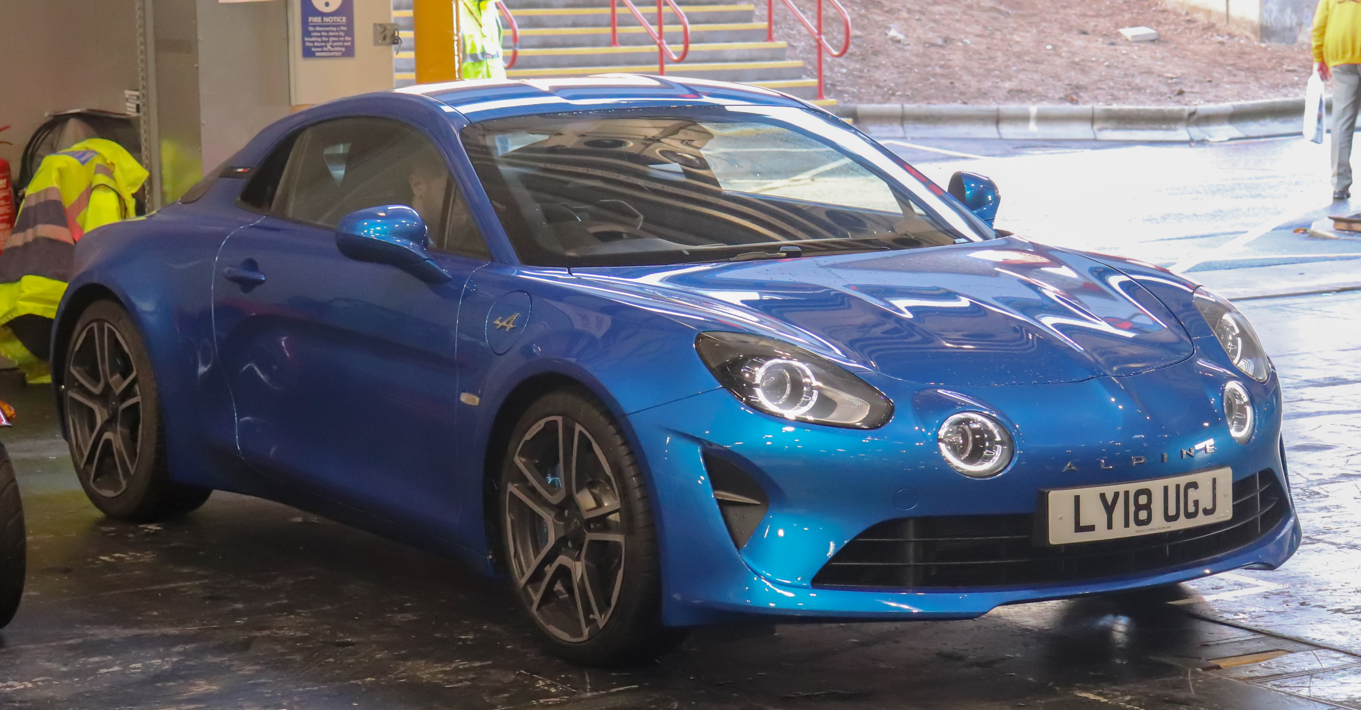 2018 Alpine A110 Premiere Edition Automatic 1.8 Taken at the NEC Classic Motor Show 2018